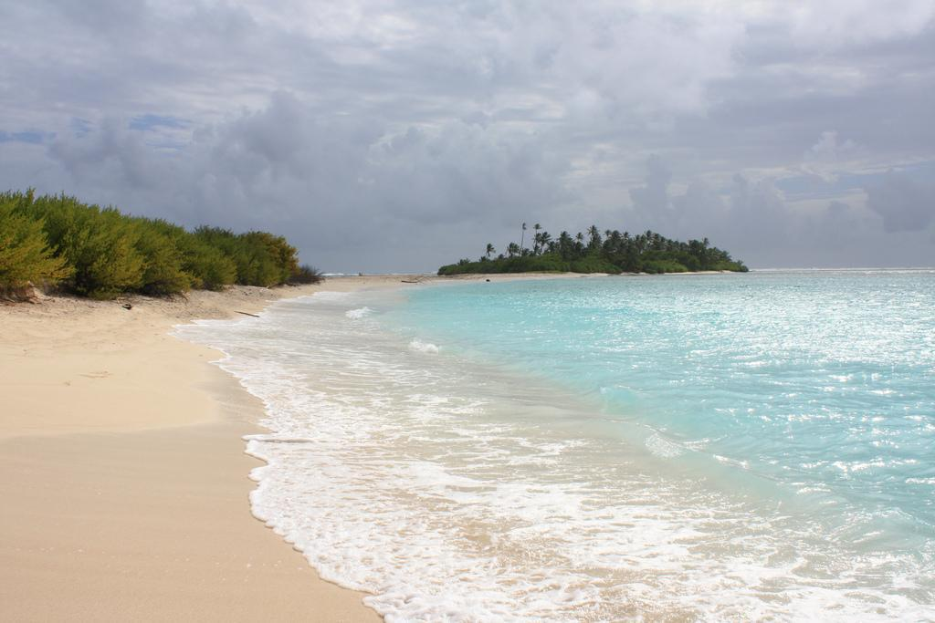 Bolívar Key, San Andres, Colombia